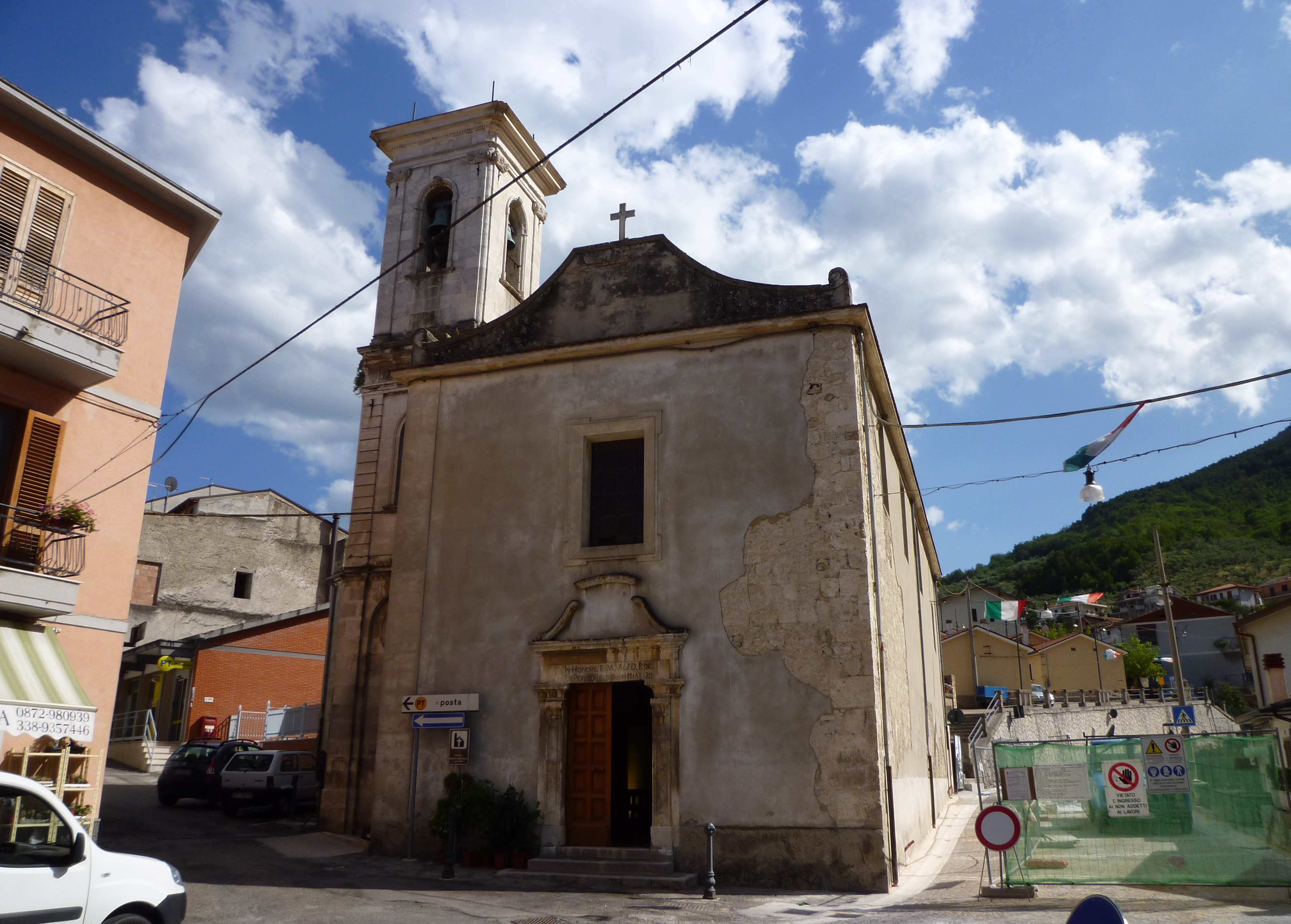 Church of Santa Maria delle Grazie, Fara San Martino, province of Chieti, Abruzzo, Italy.